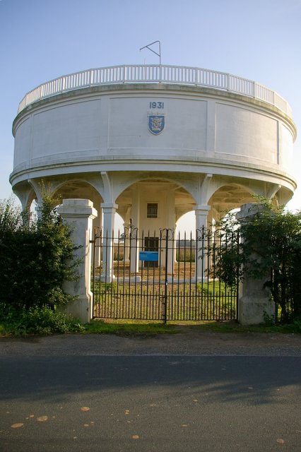 Water Tower, Swanland, East Riding of Yorkshire, England.